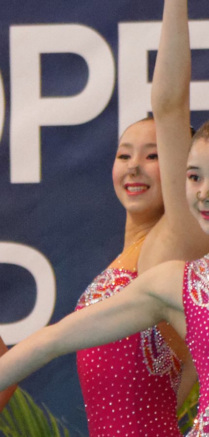 Synchronised swimmer Guo Li at the Open Make Up For Ever 2013 in France